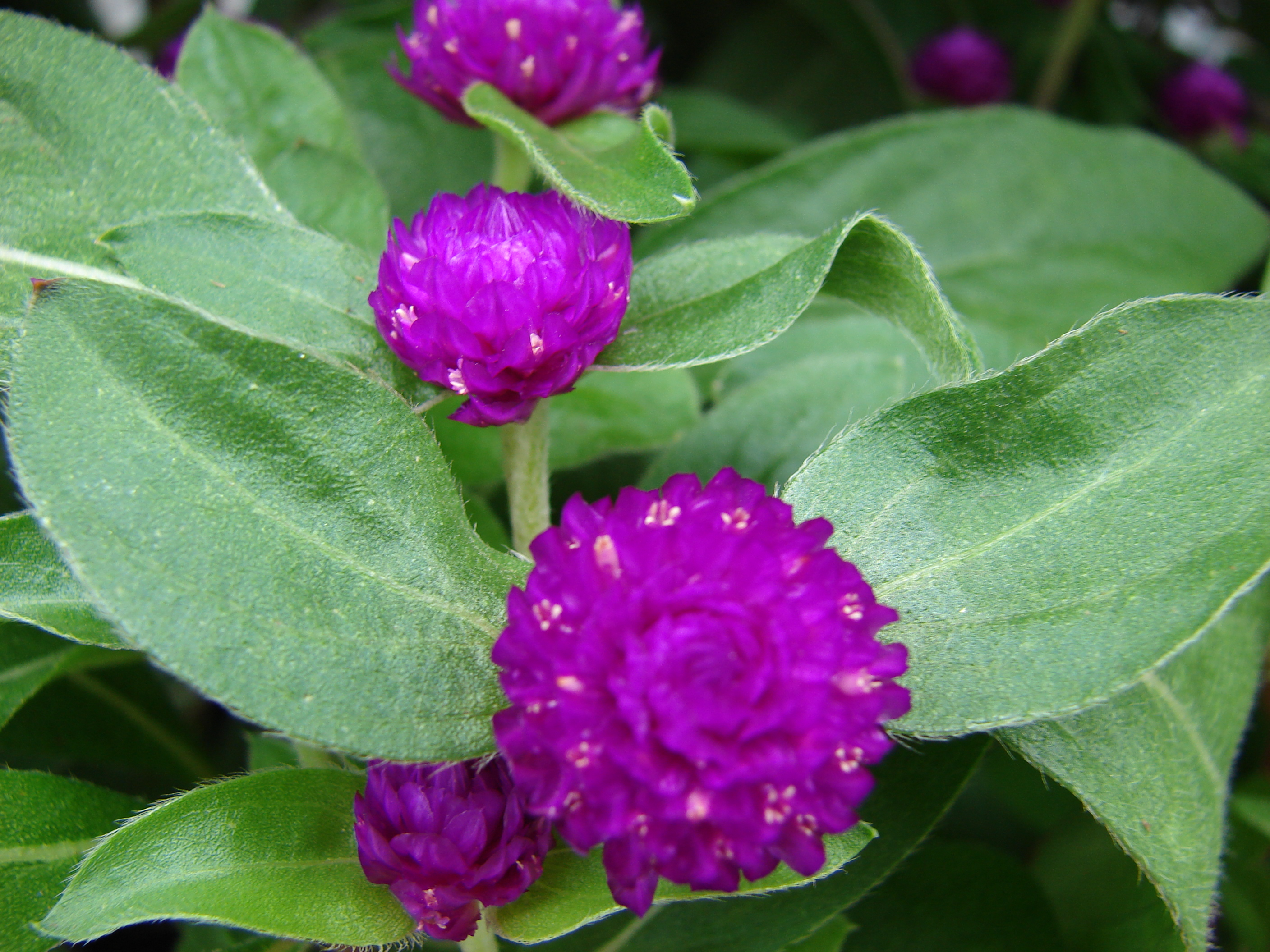 Gomphrena globosa (flowers and leaves). Location: Maui, Kula Ace Hardware and Nursery